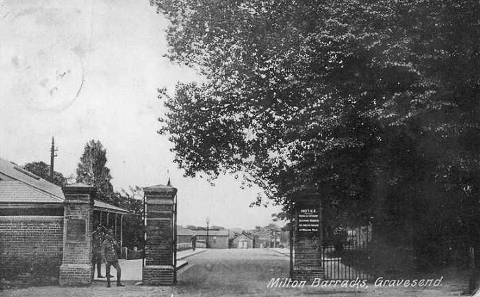 Old postcard of Milton Barracks in Gravesend